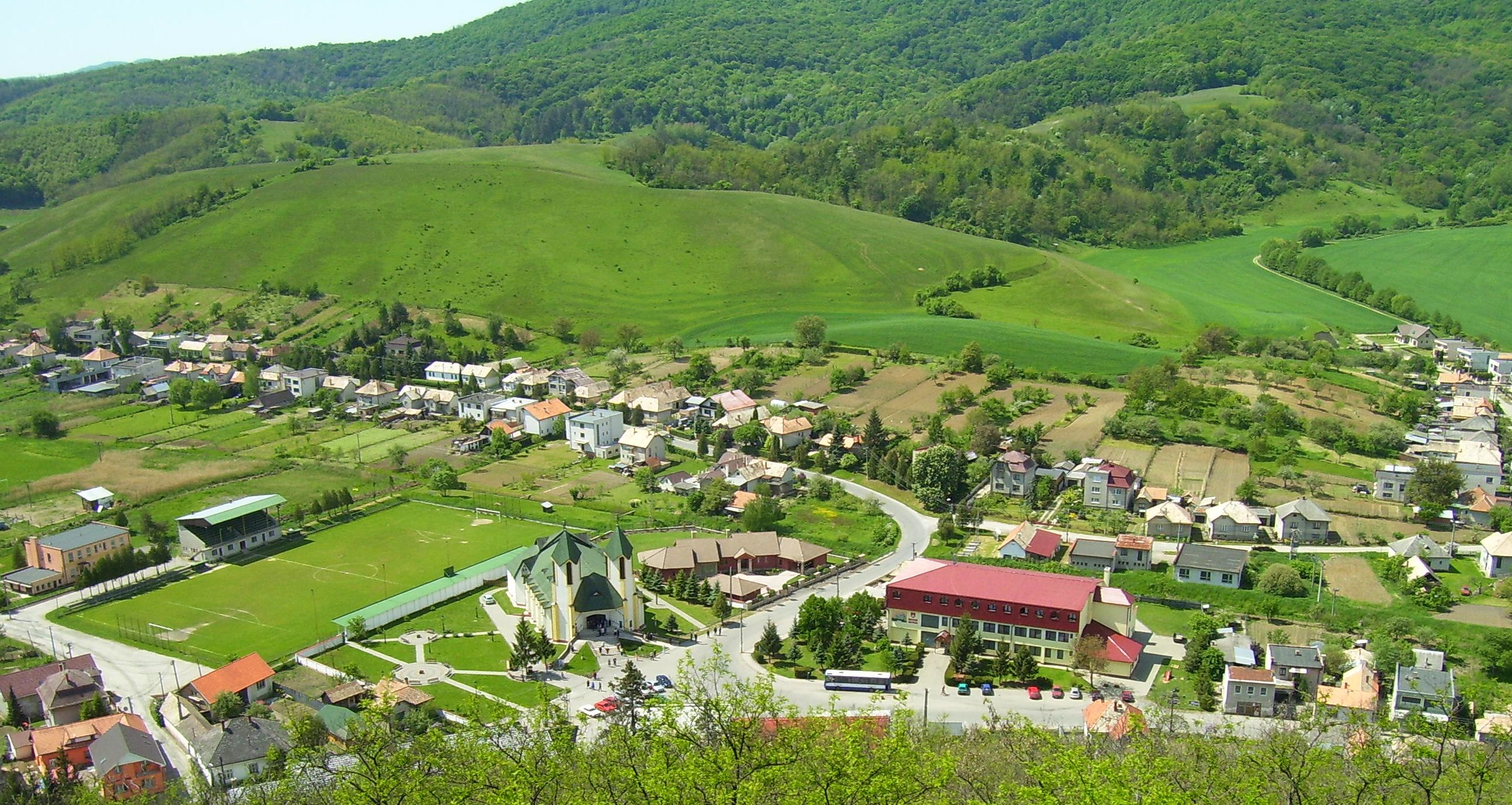 View of the centre of Hajnáčka (Hungarian: Ajnácskő)in Slovakia from the ruins of the former castle. The photo was taken on 10 May 2008. Own work.